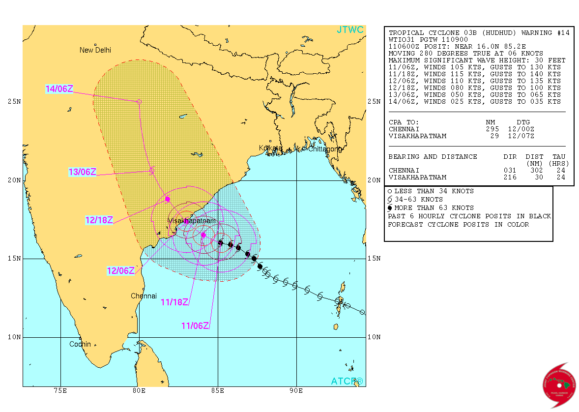 Forecast track of Tropical Cyclone 03B (Hudhud)